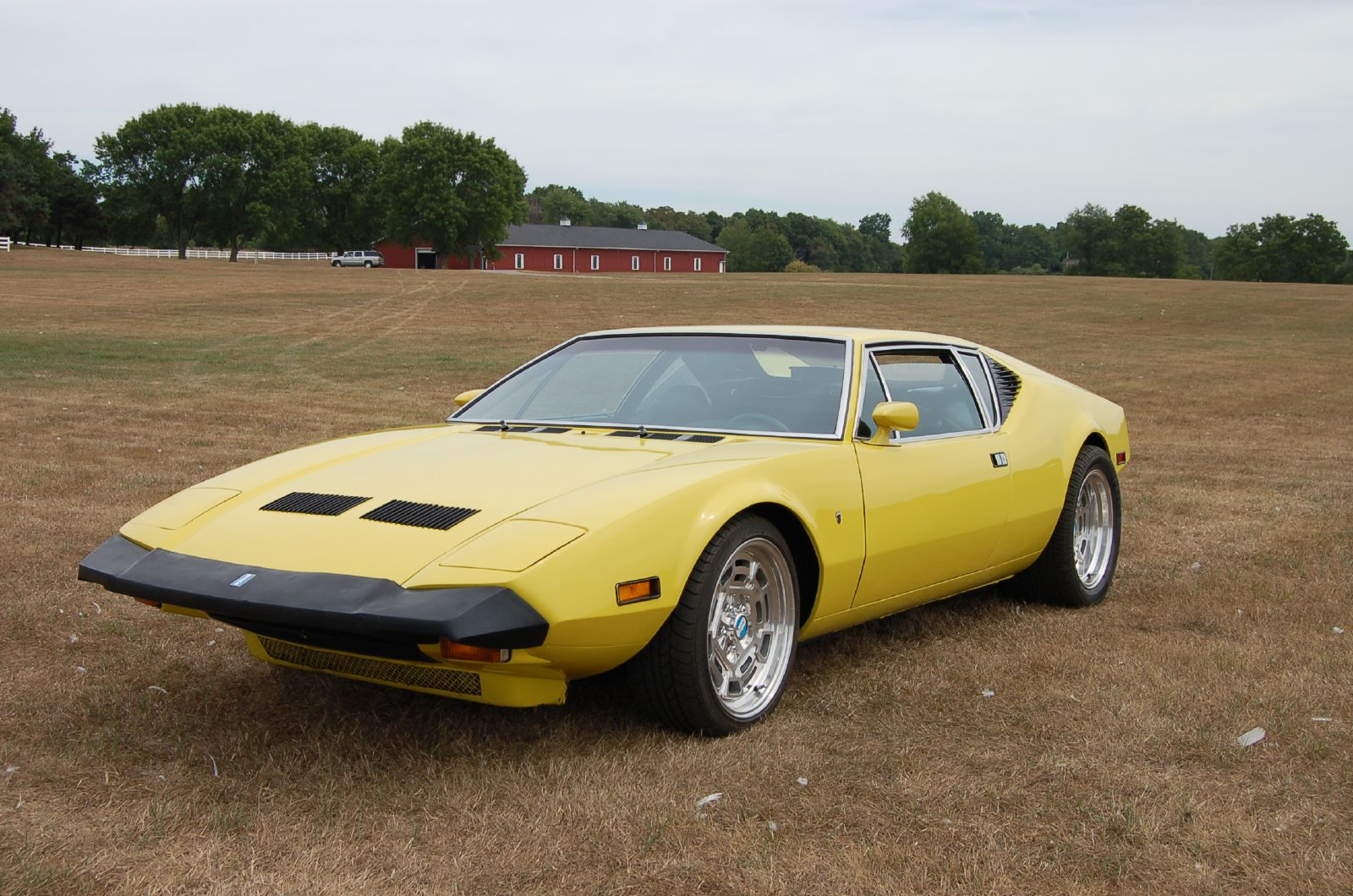 Taken during the 2007 "Red Barns Spectacular" car show at the Gilmore Car Museum, Hickory Corners, Michigan. This car wasn't even on display. It was just parked in the back of the parking lot, away from everyone else.